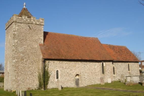 St Helen's Church, Hangelton, City of Brighton and Hove, England. Viewed from the southwest. The flints in the south wall are laid in a herringbone pattern. Listed at Grade II* by Historic England (NHLE Code 1298636)